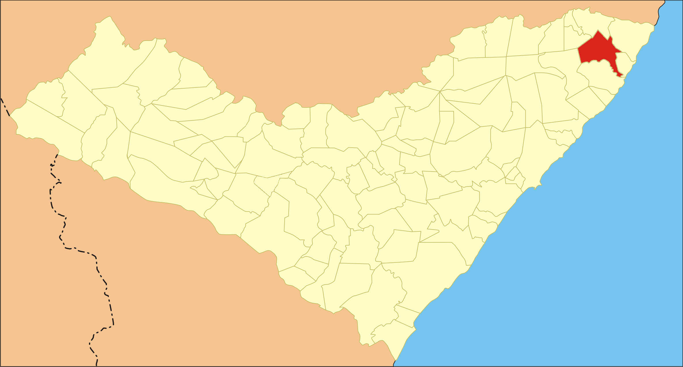 Localization of Porto Calvo in Alagoas state, Brazil.